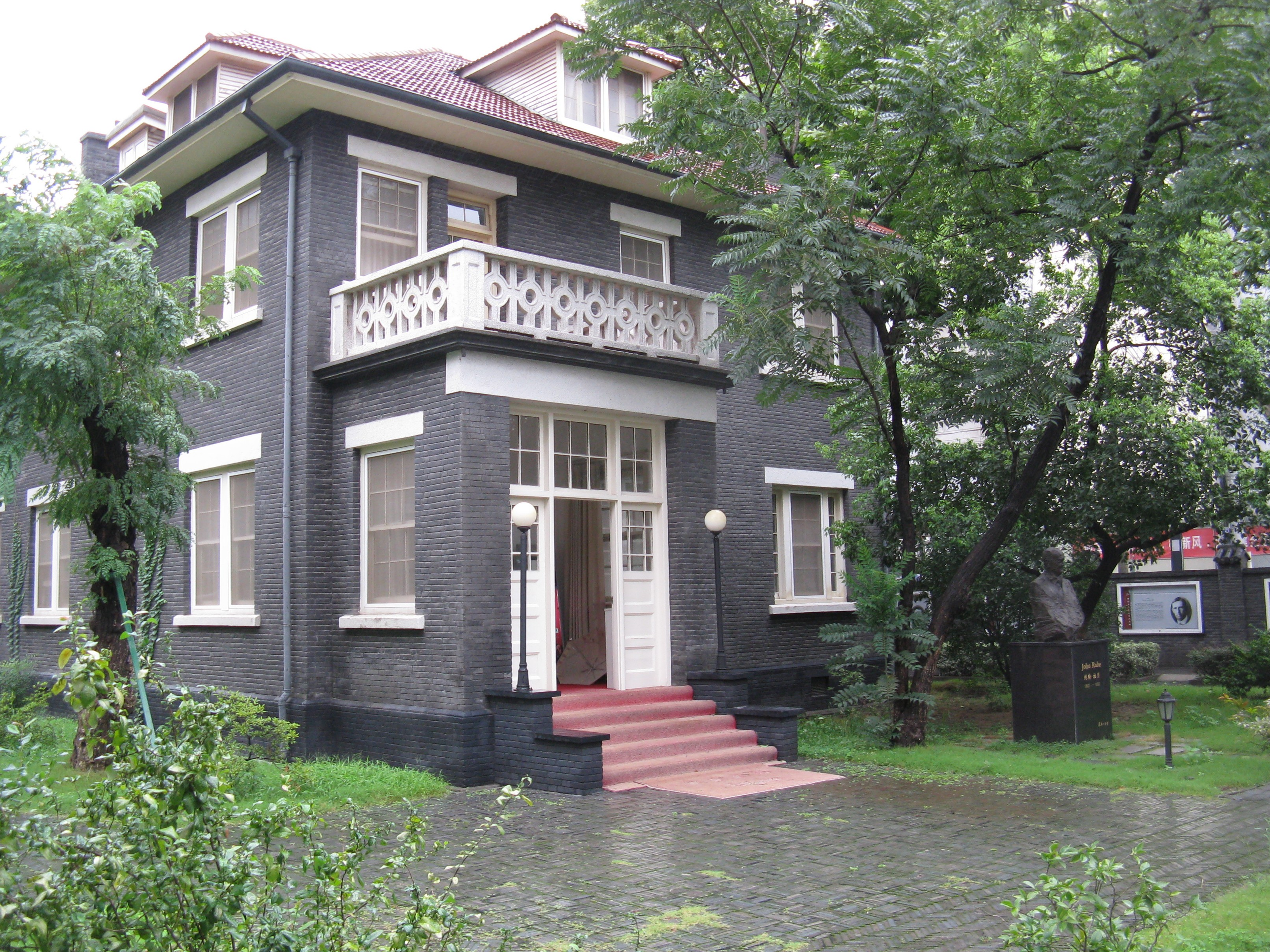 John Rabe House in the summer of 2008